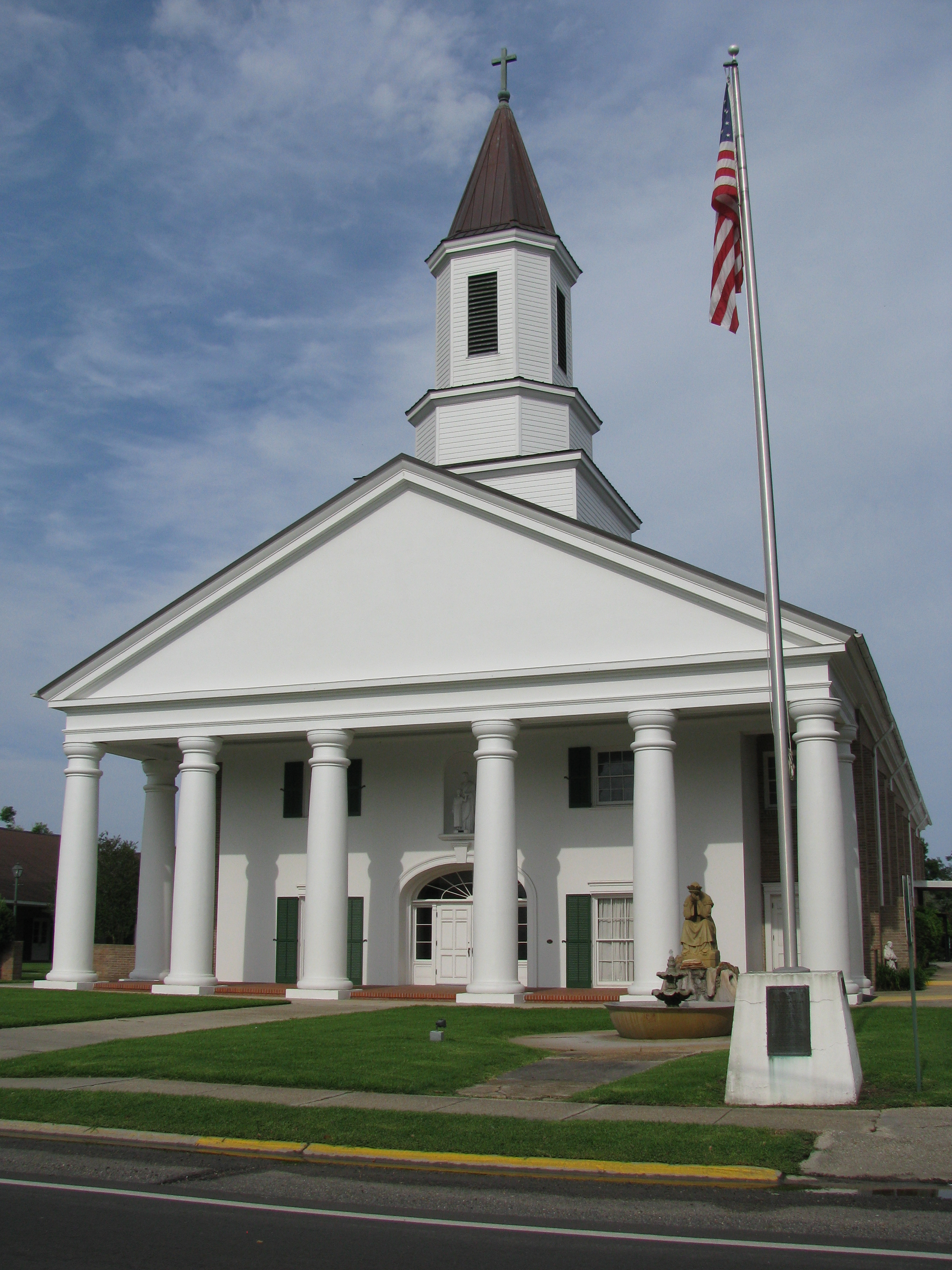 Photograph of St. Joseph's Catholic Church in Loreauville, Louisiana, USA taken from Main Street.